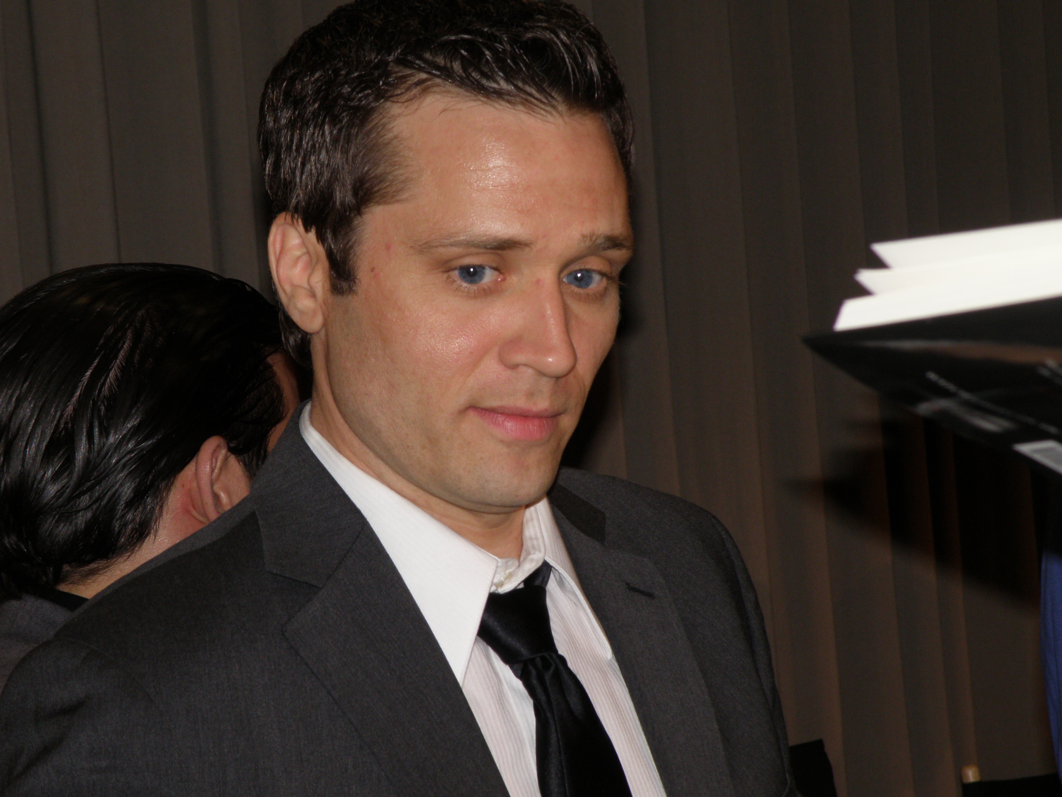 Actor Seamus Dever during "An Evening with Castle" at the Paley Center for Media.